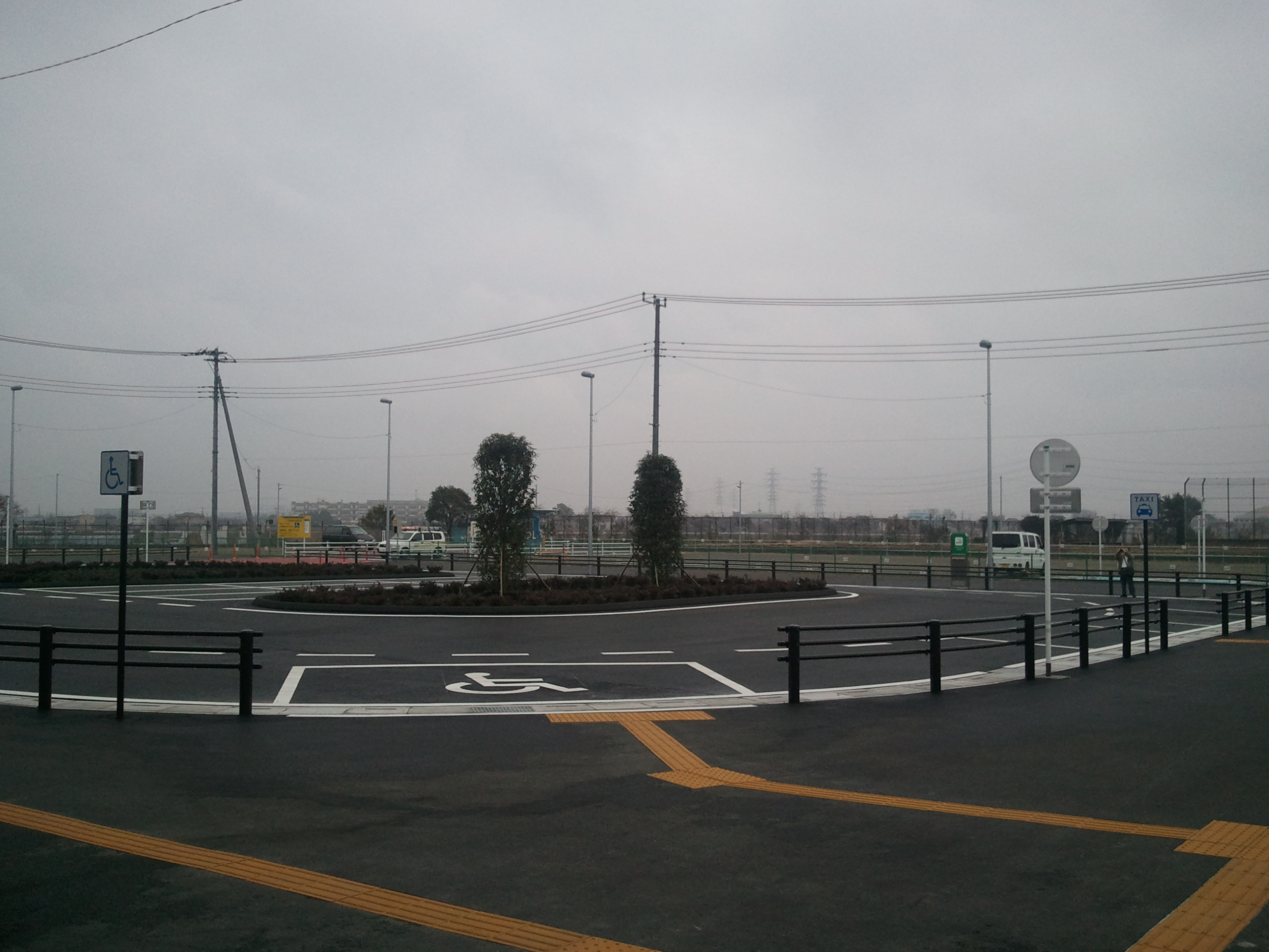 JR Yoshikawa-Minami station east rotary, JR吉川美南駅東口ロータリー